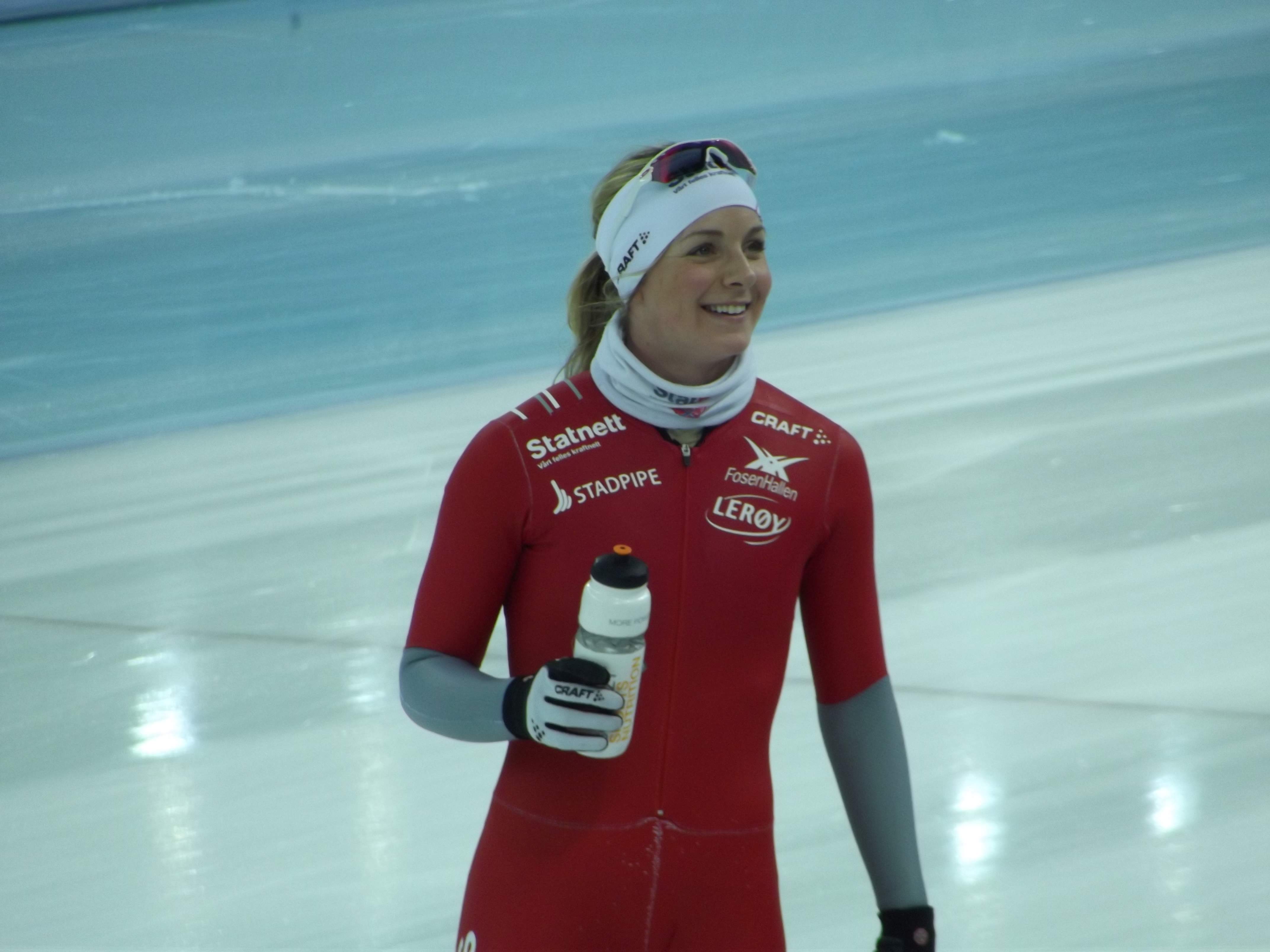 2013 World Single Distance Speed Skating Championships